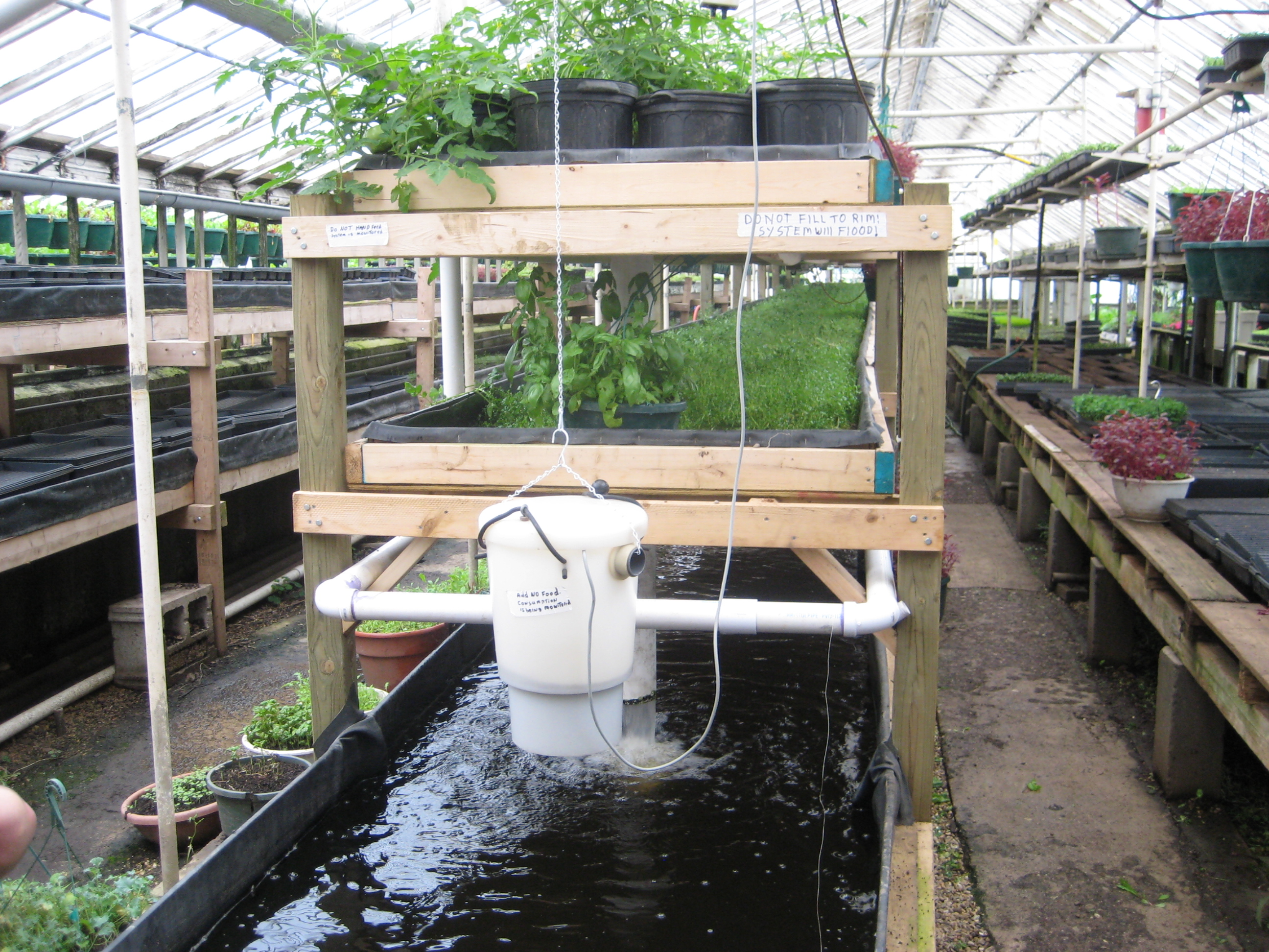 An aquaponic system that involves tilapia or perch (up to 10,000 fish in the 5 ft deep tank), watercress and tomatoes. The water is drawn up through one pump and gravity fed through the potted plants (which remove the nitrogen from the fish waste) and back into the tank where it re-oxygenizes the tank water.